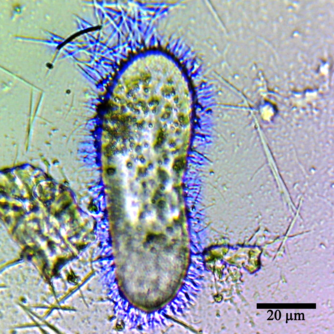 Paramecium tetraurelia, with trichocysts